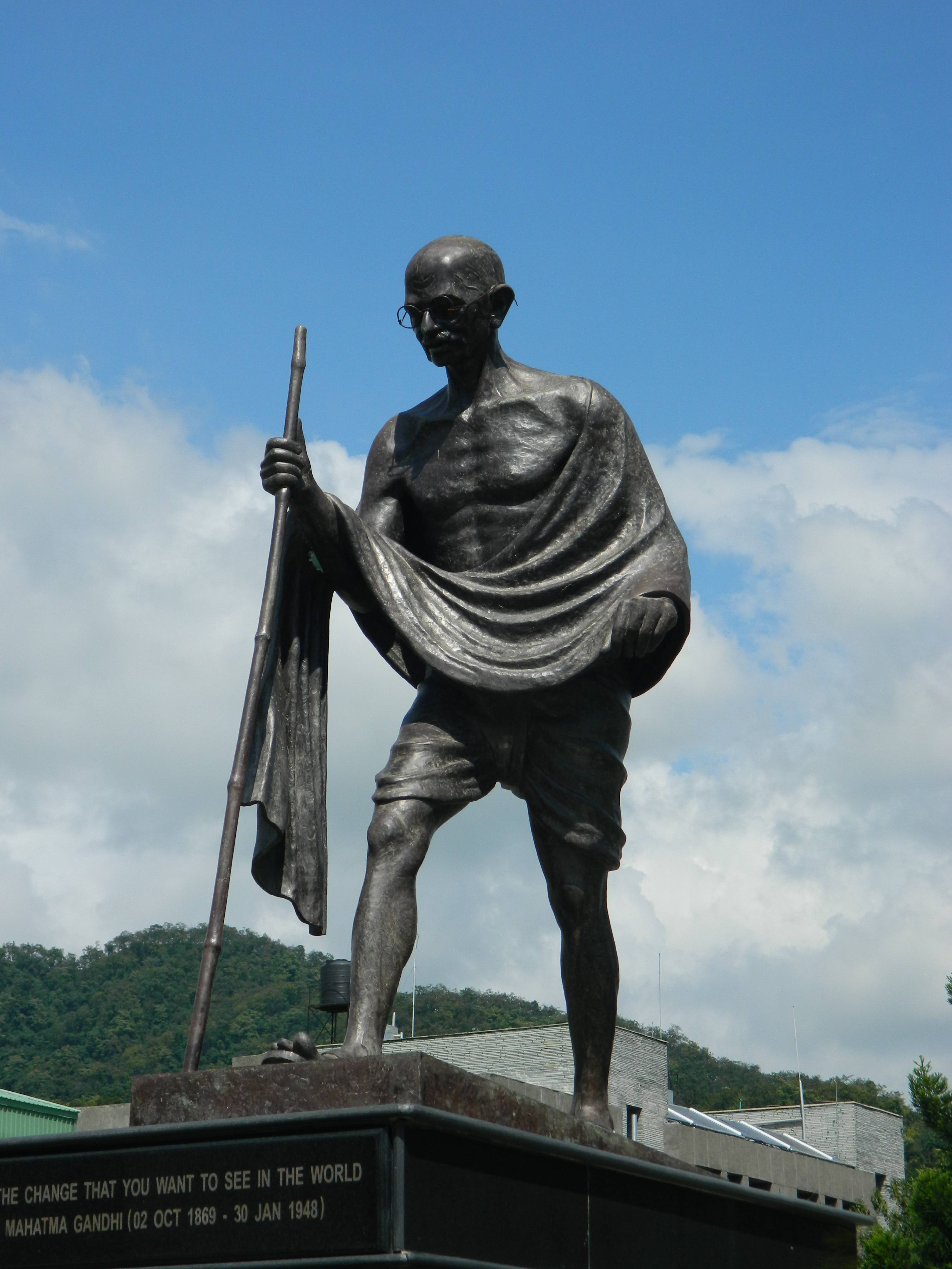 Statue of Mahatma Gandhi at UPES